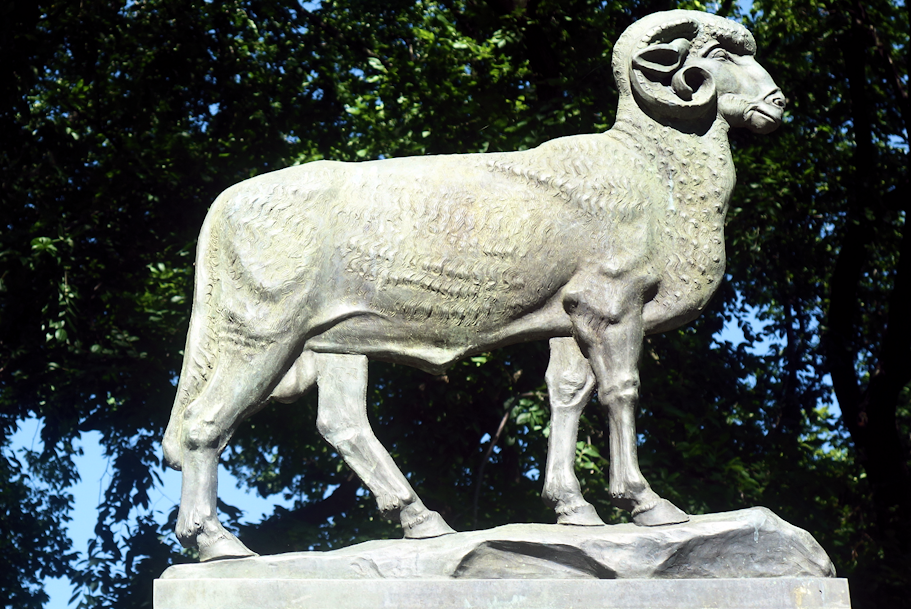 Ram statue at Fordham University